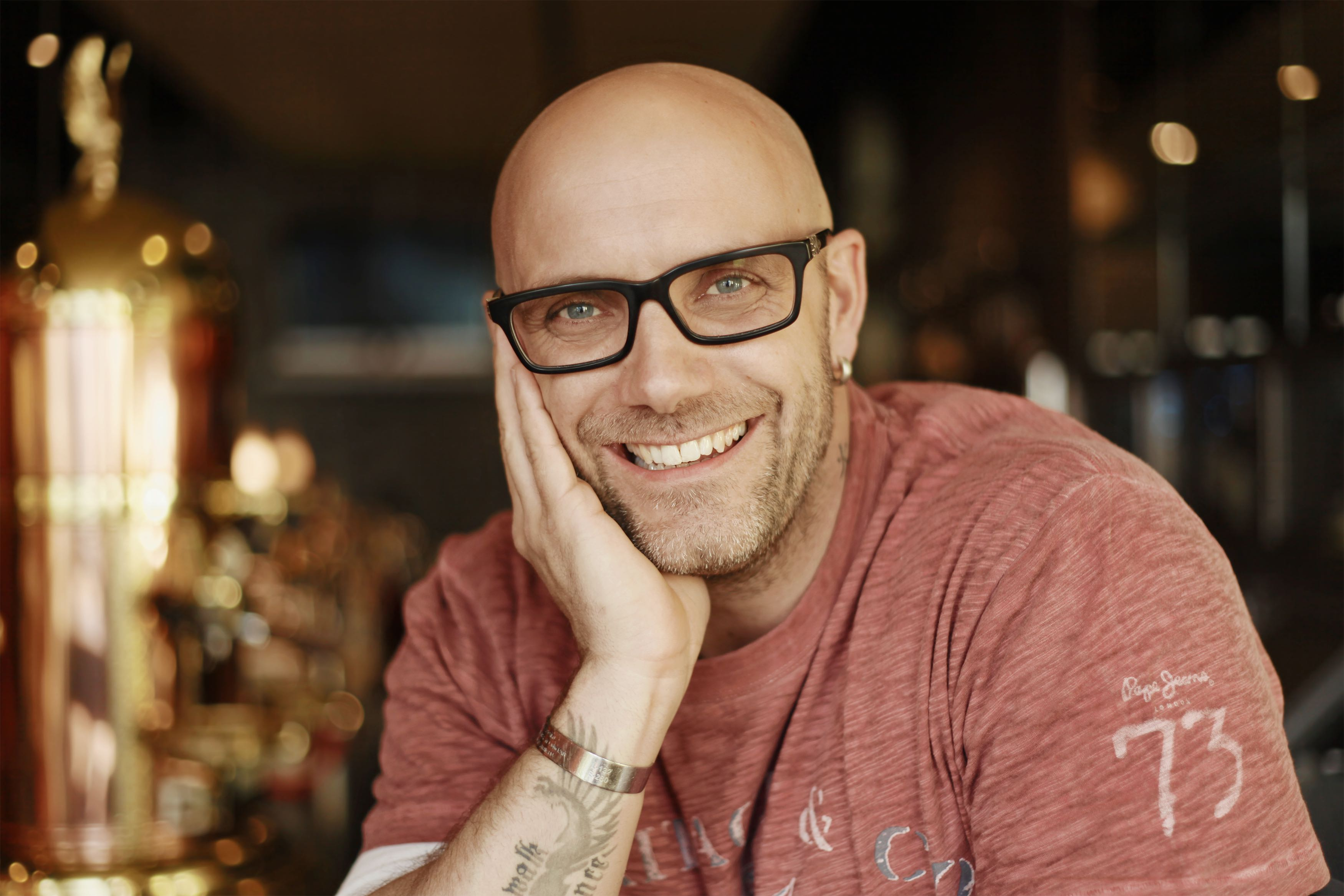 René Schudel